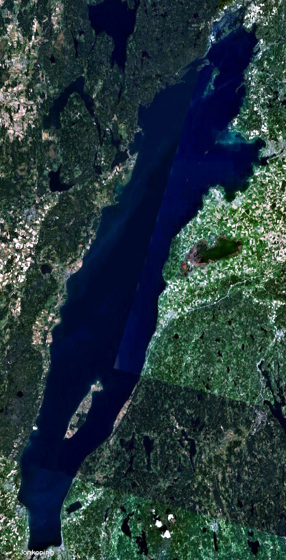 Vättern, Sweden. Satellite view.